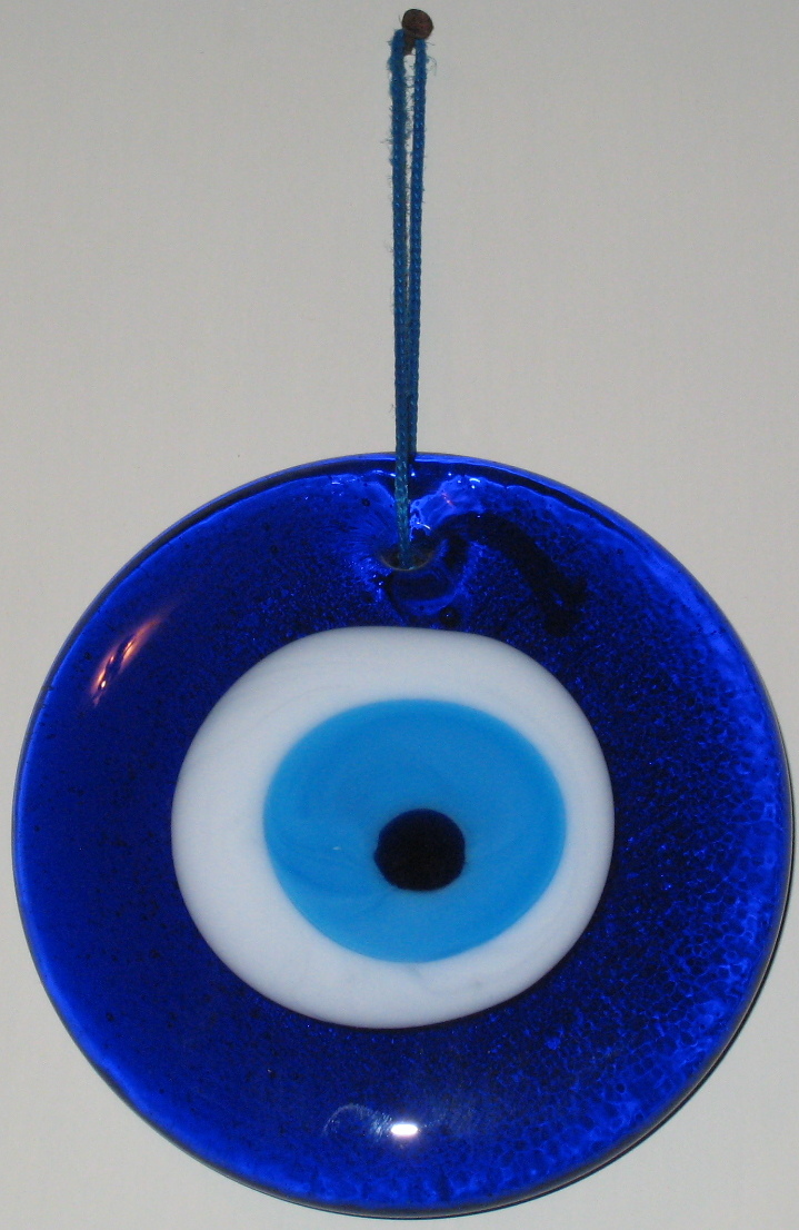 folklore Iranian beliefs:This will protect against the "Evil eye"